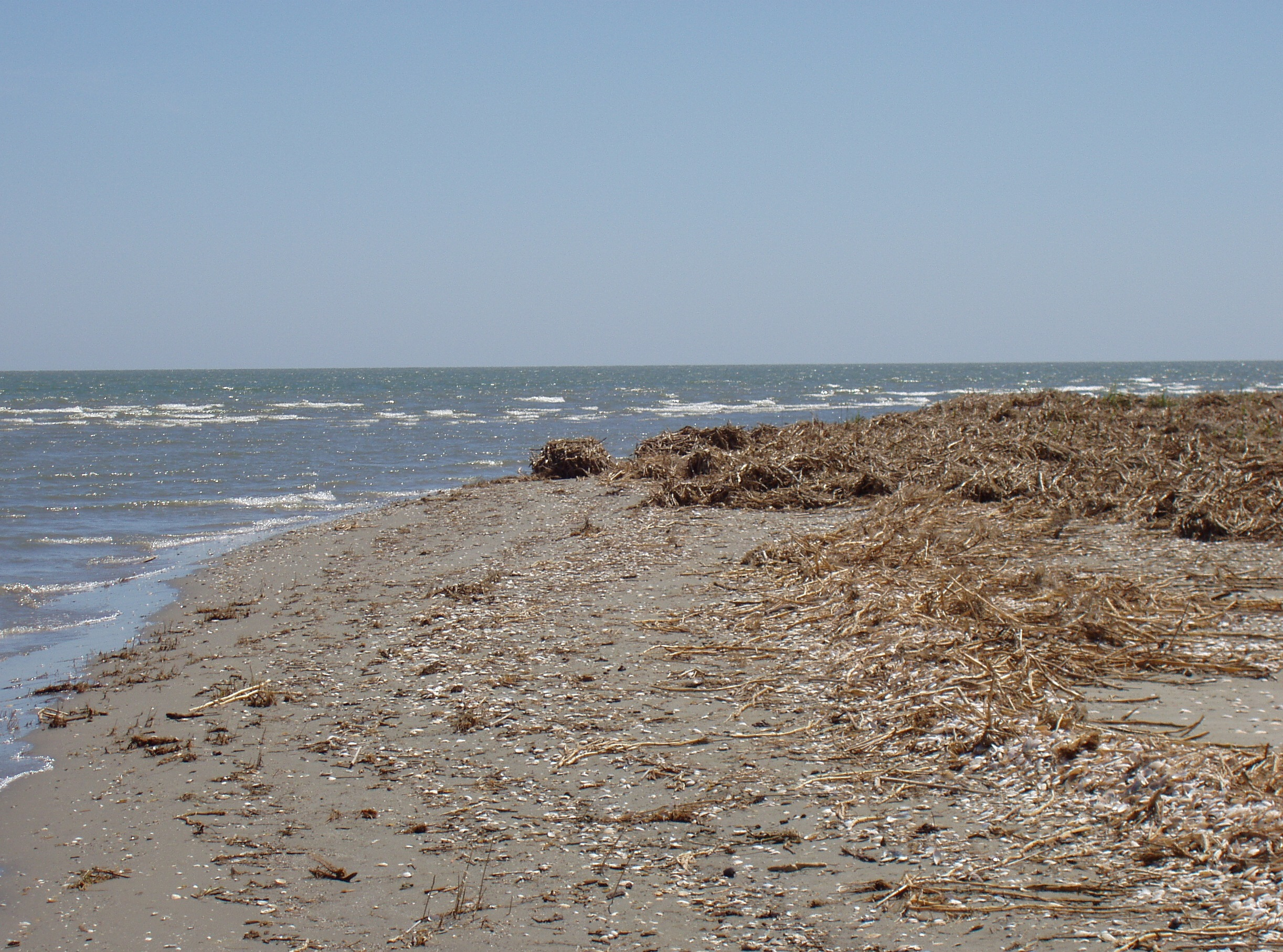 Ukrainian Danube Biosphere Reserve. Prorva Spit